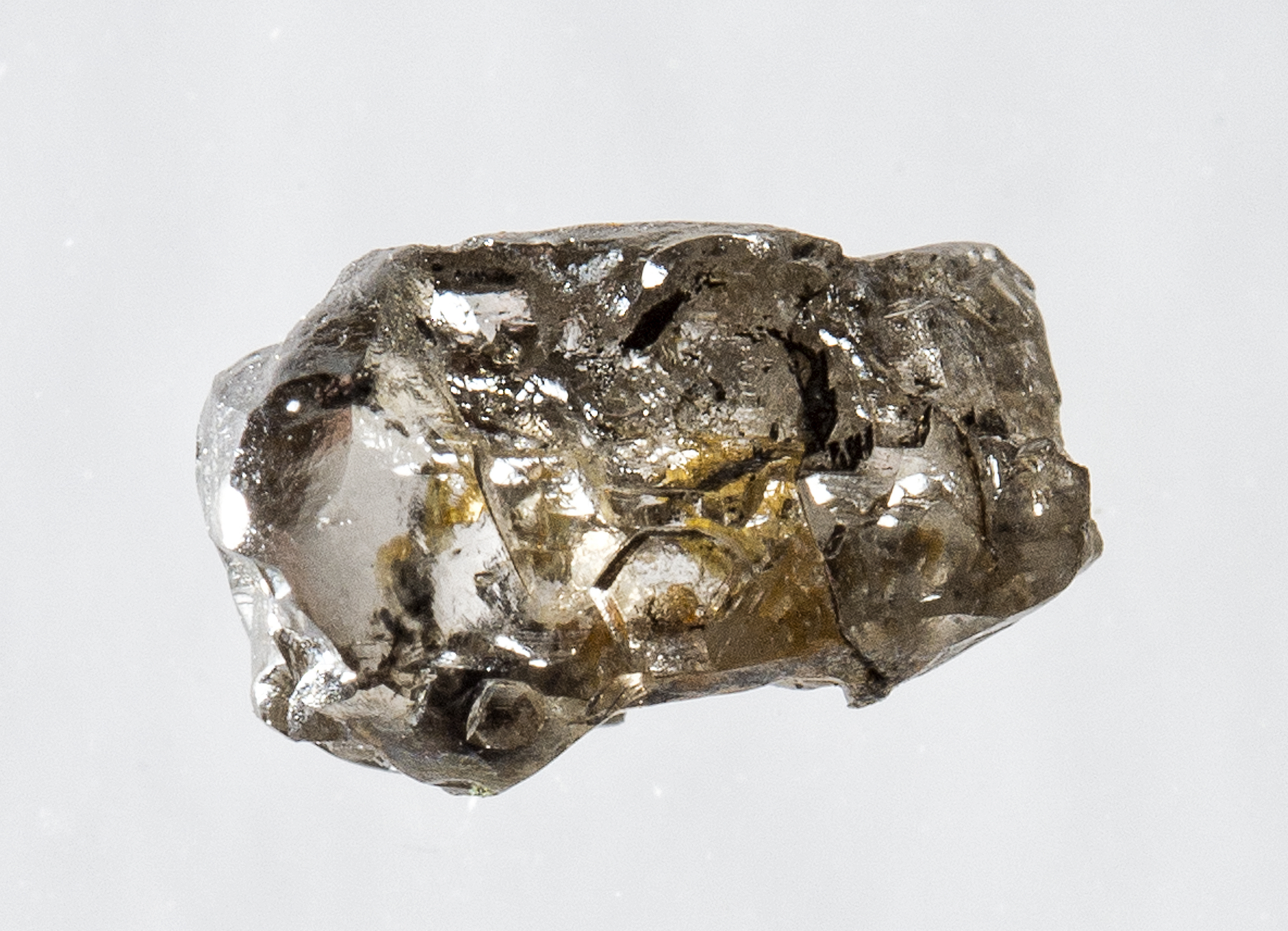 This image is of a diamond from Juína, Brazil with ringwoodite inclusions, which provides evidence for the presence of water in the transition zone.